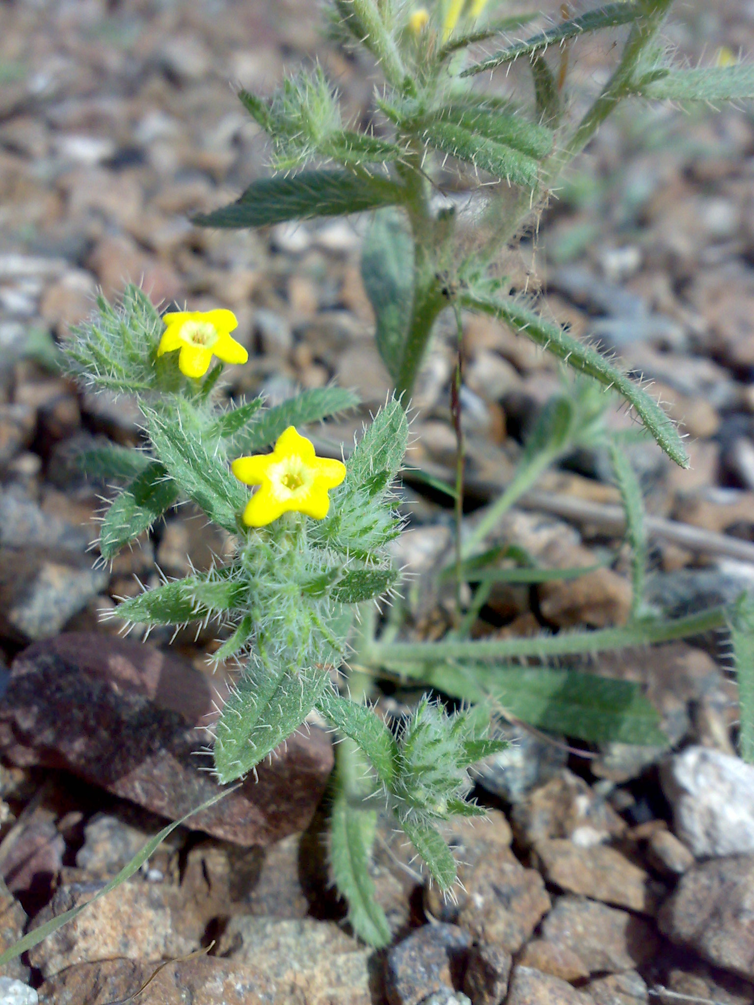 Arnebia hispidissima near Dabna, northern Fujairah emirate, eastern UAE